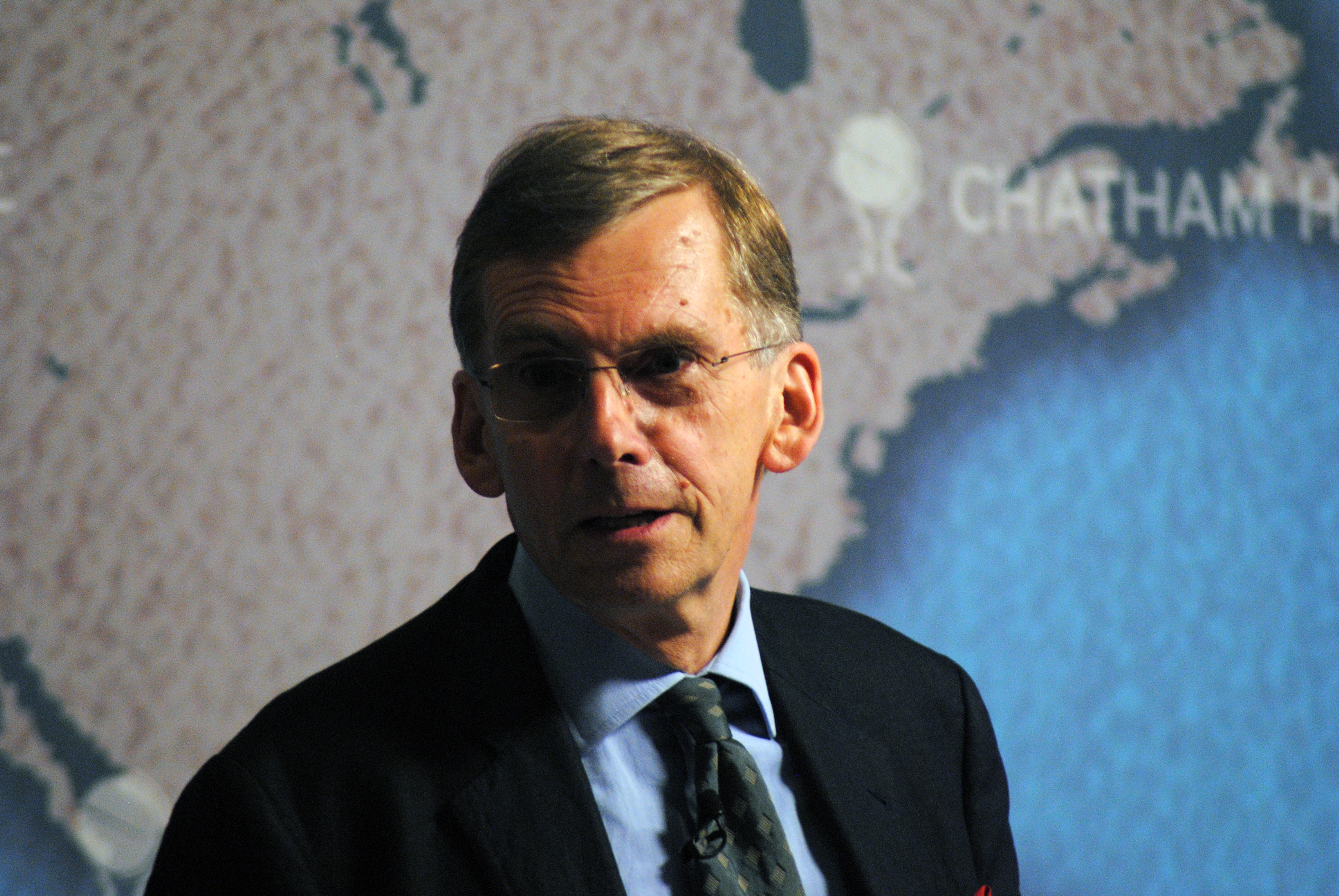 Counterterrorism: The Right Response? 6 September 2013 cht.hm/1fEY98P